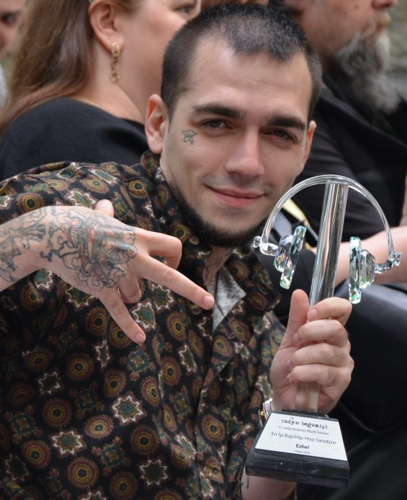 Turkish rapper Ezhel during 15th Radio Boğaziçi Music Awards.